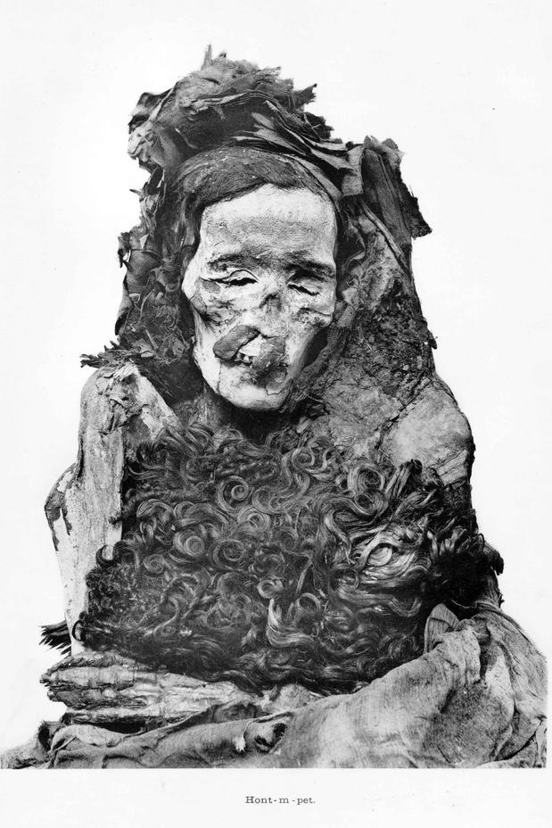 Mummy of the princess Ahmose-Henutemipet, daughter of pharaoh Seqenenre of the 17th dynasty, found in DB320.